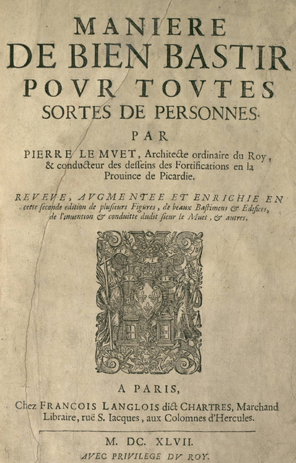 Le Muet: Maniere de bastir, title page